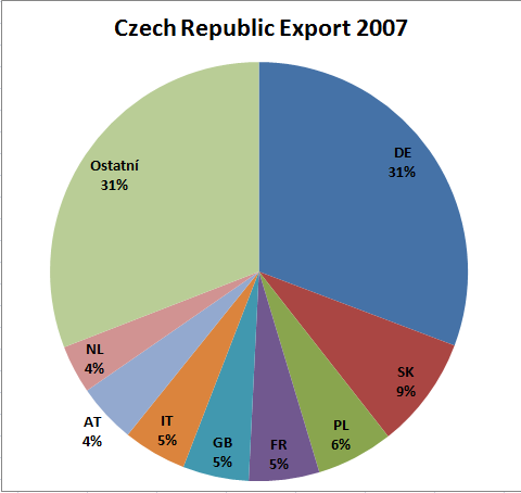 Export of the Czech Republic 2007